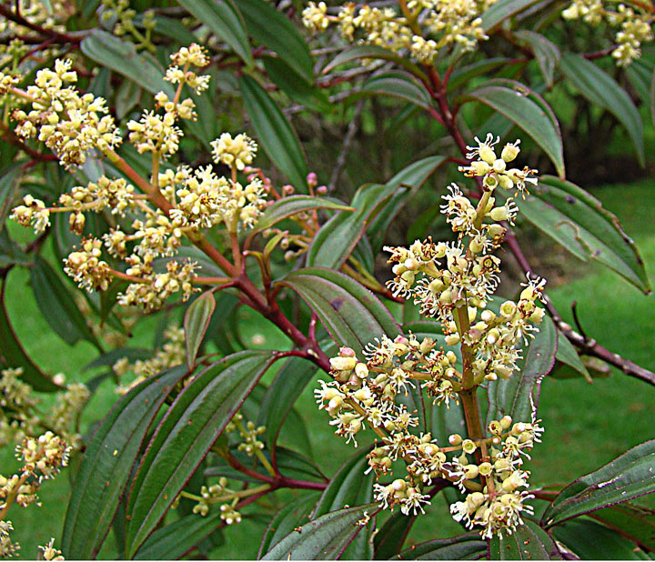 Known by names such as Tuno roso, this species is found in the mountains from Venezuela to Peru. Botanical Gardens of Bogota.